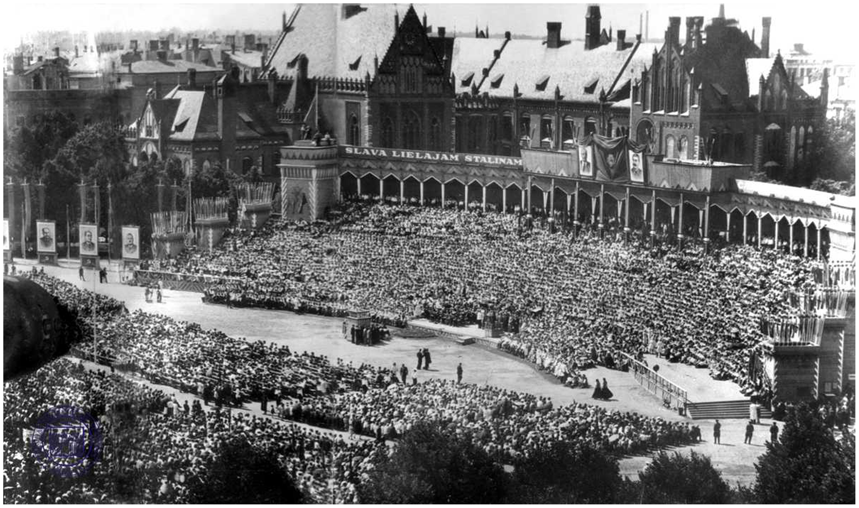 Holiday songs. Esplanade (Riga), Latvia, 1948.